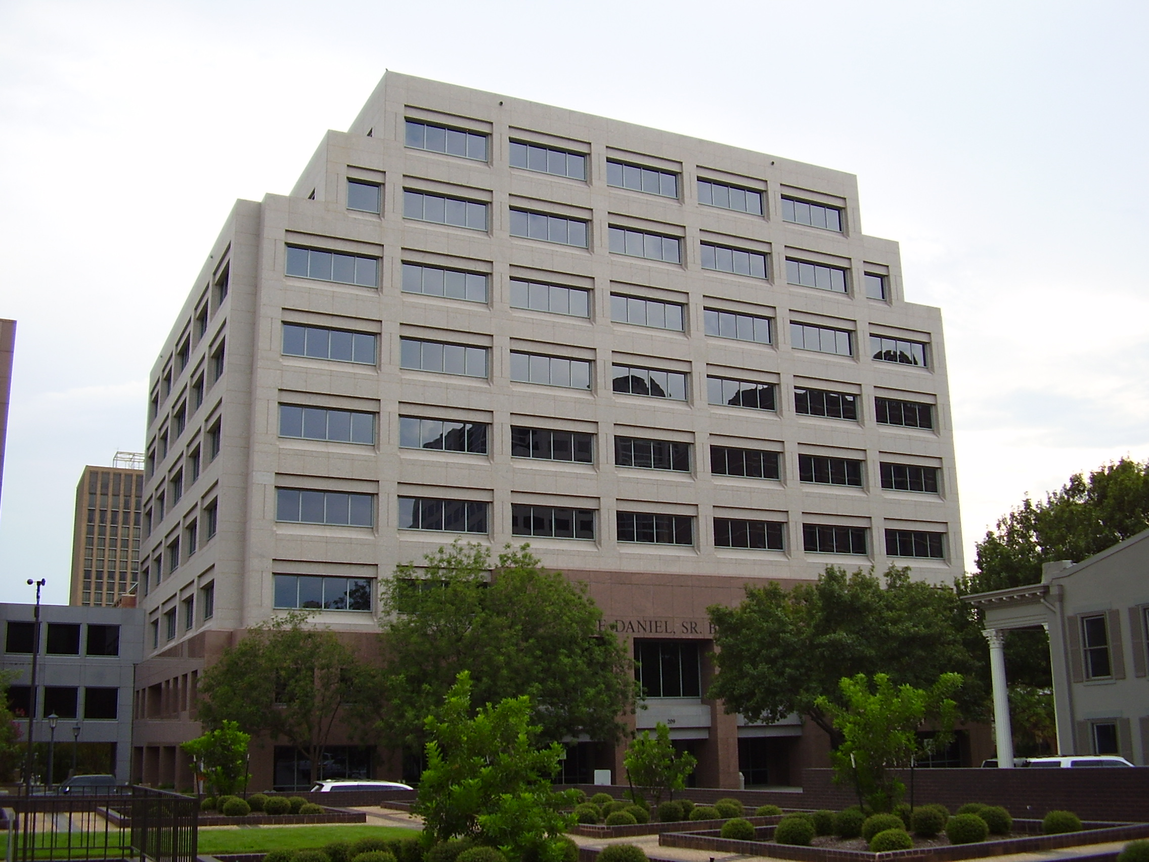 Price Daniel, Sr. State Office Building - Has offices of the Texas Department of Criminal Justice and the Third Court of Appeals